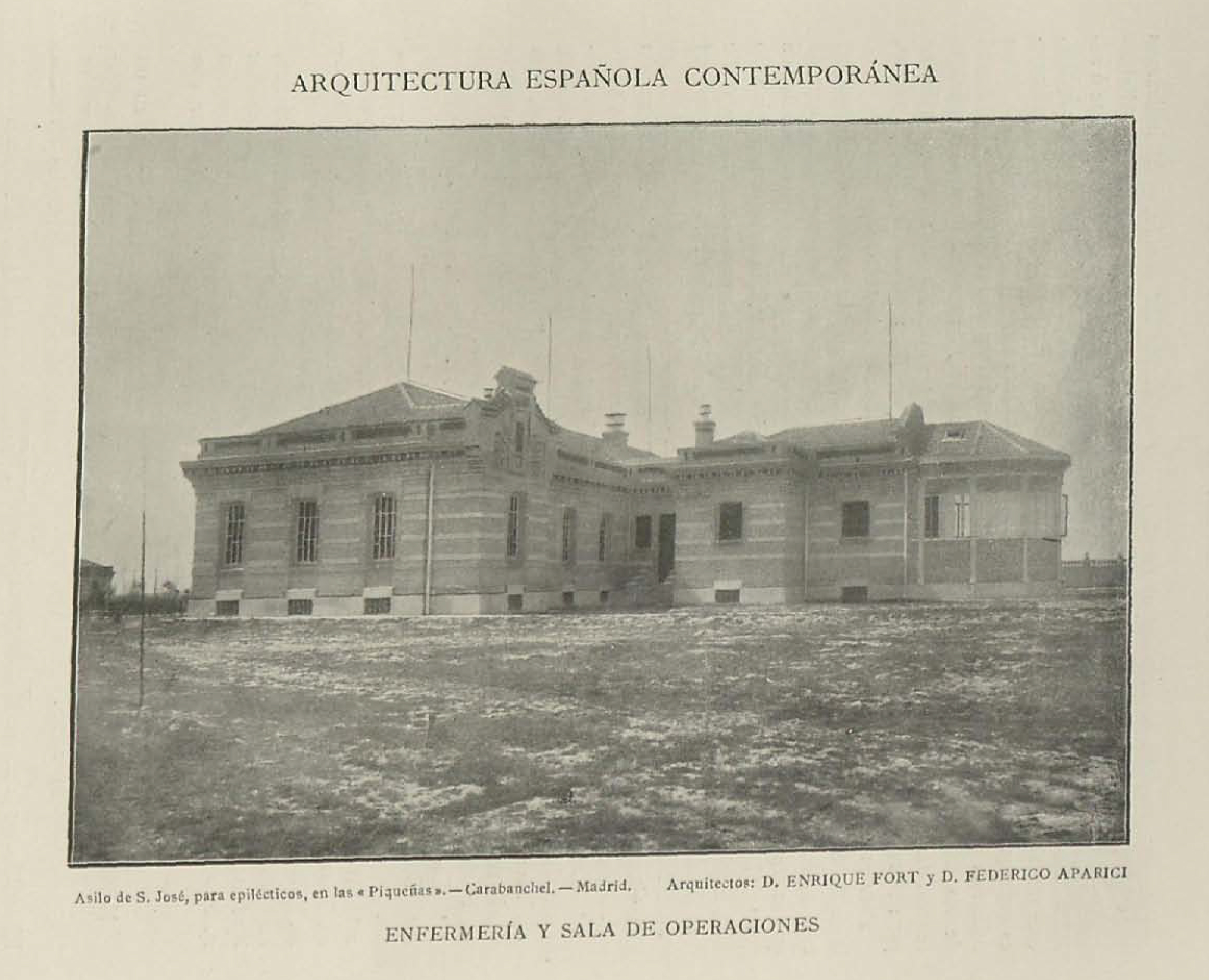 Enfermería y sala de operaciones. Asilo de San José para epilépticos, en las Piqueñas, Carabanchel.